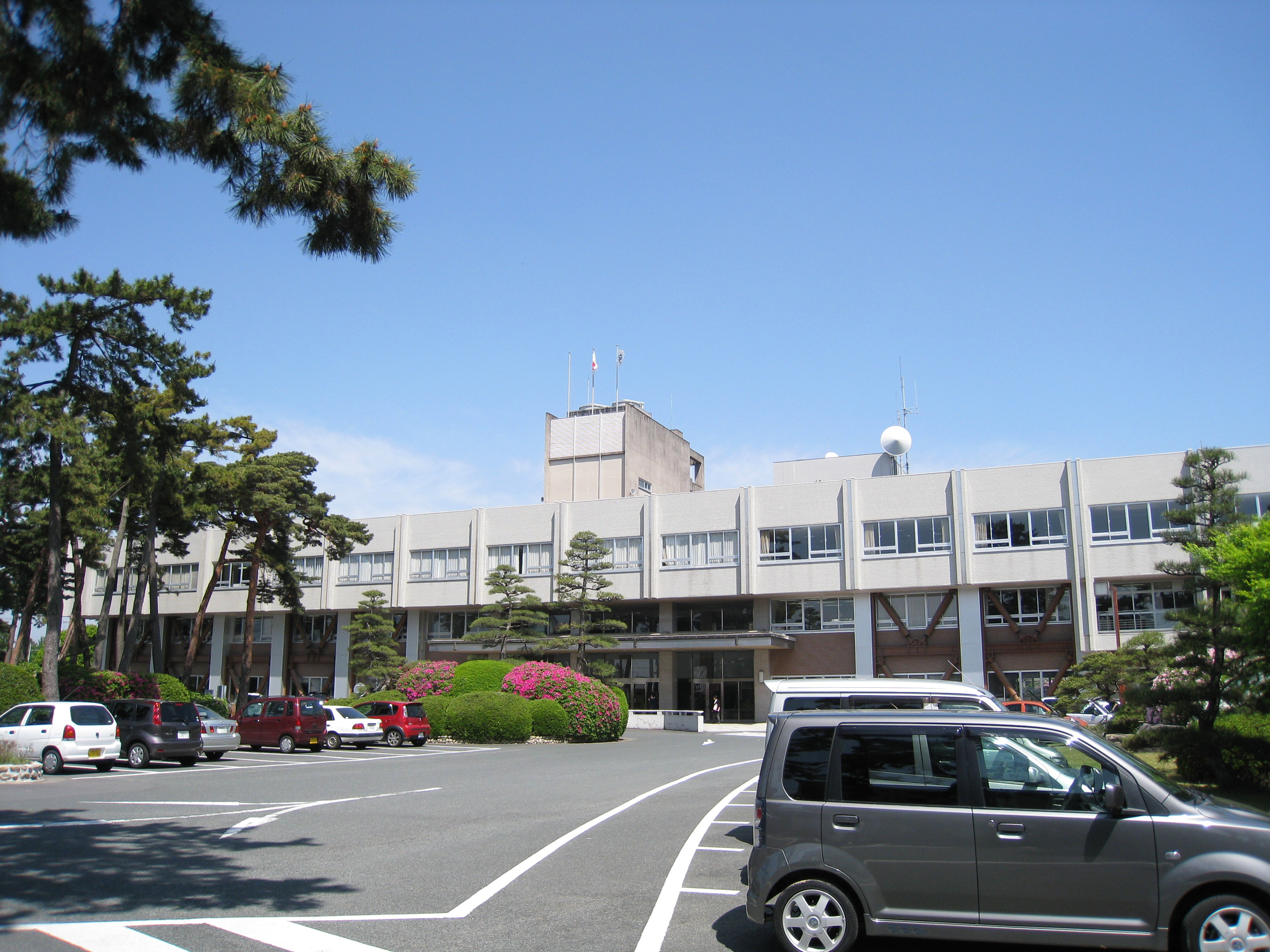 Toyokawa City Hall (豊川市役所), located at 1-1 Suwa, Toyokawa, Aichi, Japan